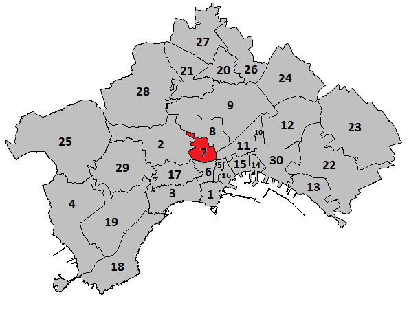 Avvocata in Naples